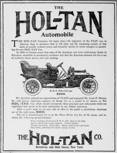 The image comes from a newspaper in the Library of Congress online archives New-York tribune. (New York [N.Y.]) 1866-1924, November 24, 1907, Image 11